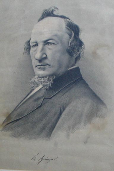 Karl Heinzen